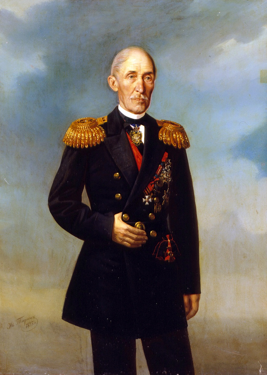 Yepanchin, Ivan Petrovich